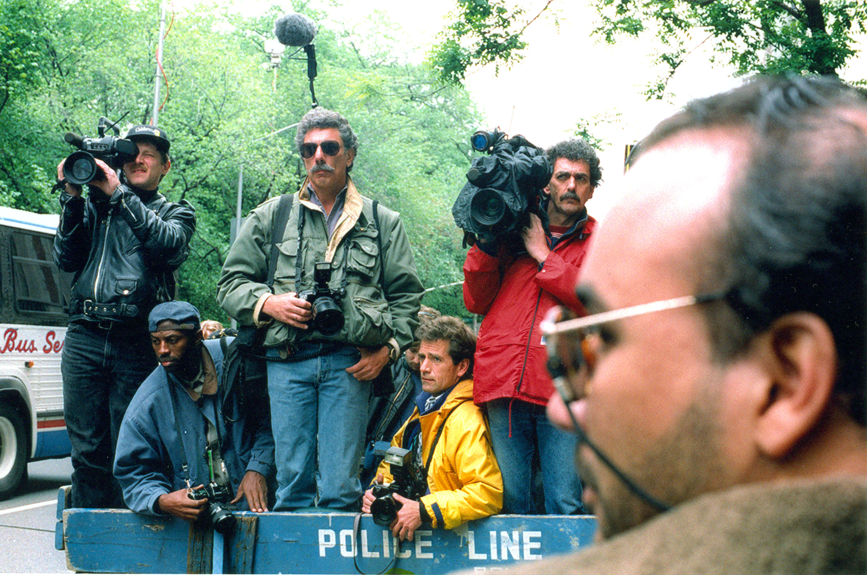 News photographers and reporters wait outside Jacqueline Kennedy Onassis' apartment on 5th Avenue in New York City May 19, 1994. Photograph by Nancy Wong